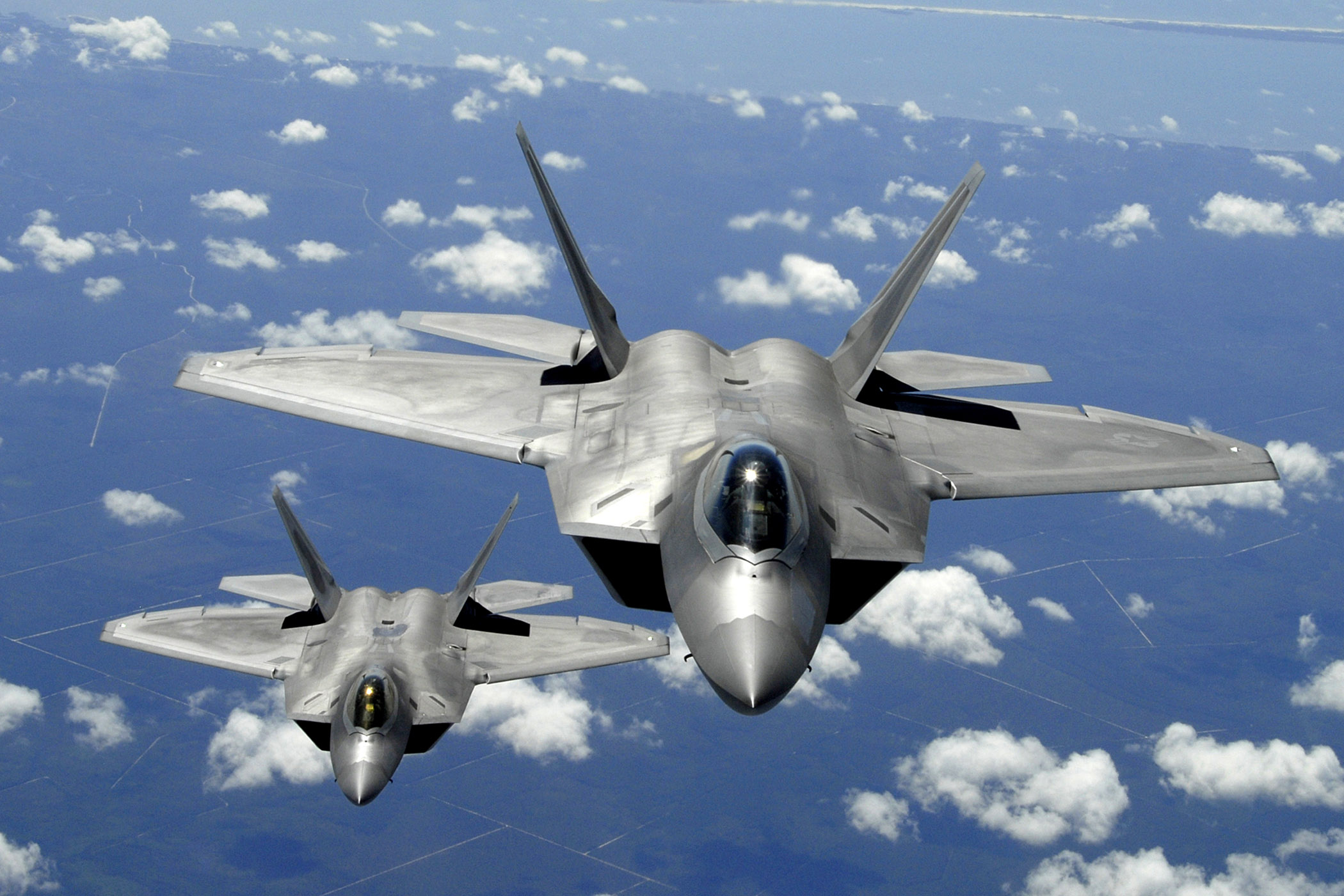 Two U.S. Air Force Air Education and Training Command F-22 Raptor stealth air superiority fighter aircraft, from Tyndall Air Force Base, Fla., fly in trail behind a Tennessee Air National Guard 151st Air Refueling Squadron, 134th Air Refueling Wing, KC-135E Stratotanker aerial refueling aircraft, from McGhee Tyson Air National Guard Base, Alcoa, Tenn., during an aerial refueling training mission on April 2, 2007. (U.S. Air Force photo by Senior master Sgt. Thomas Meneguin) (Released)